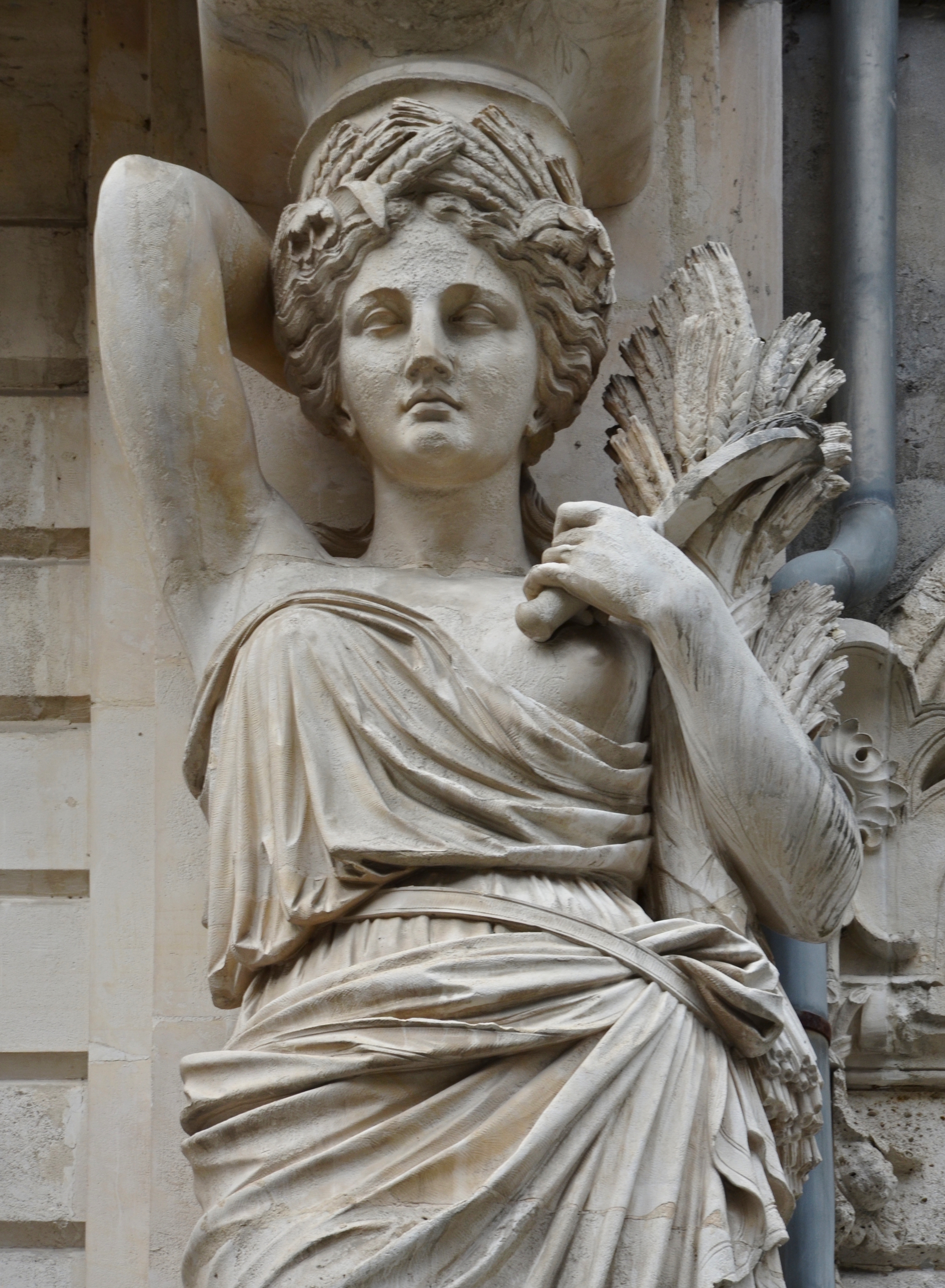 Caryatid (detail) depicting Ceres, facade of the Continental Résidence building (end of 19th century) Cauterets, Hautes-Pyrénées, France. .